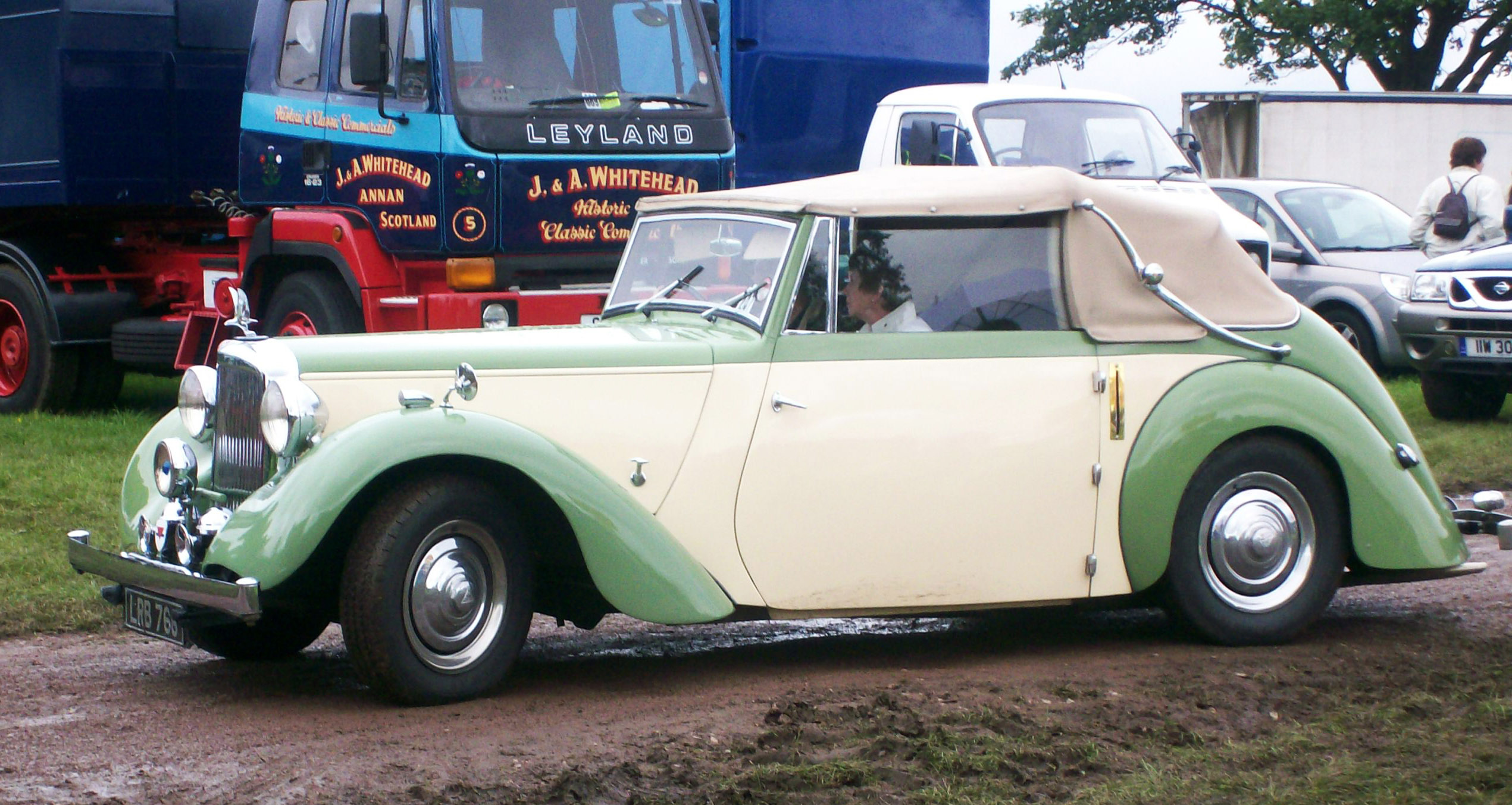 Alvis TA14 drophead coupé cabriolet (poss. by Mead)(DVLA) first registered 27 January 1948, 1892cc This particular car appears in the 2017 film, Whisky Galore used by the doctor (John Sessions) biggar car fair - jan 2007